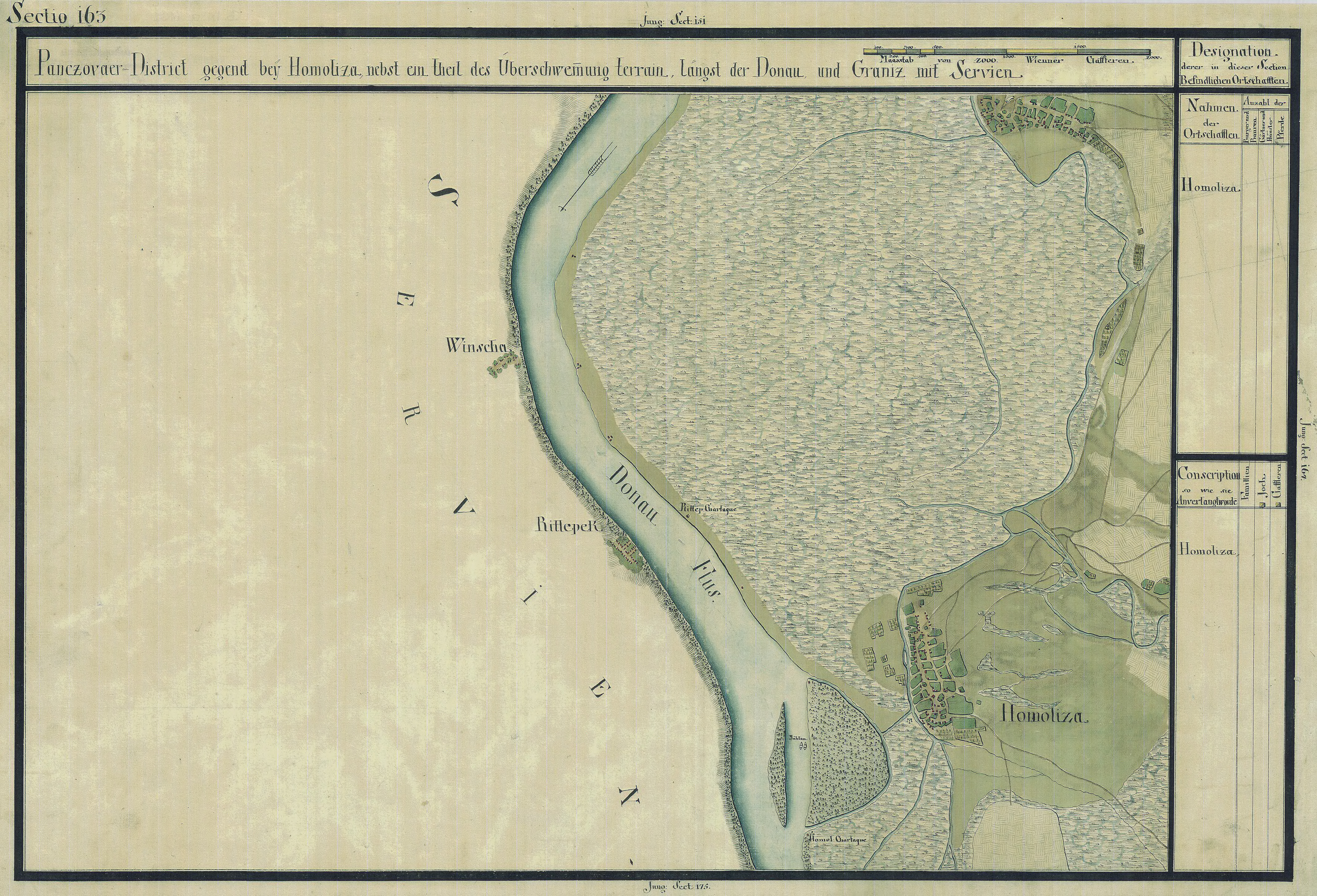 The Banat region in the cadastral maps: Josephinische Landesaufnahme, 1769-72. Josephinische Landaufnahme pg163